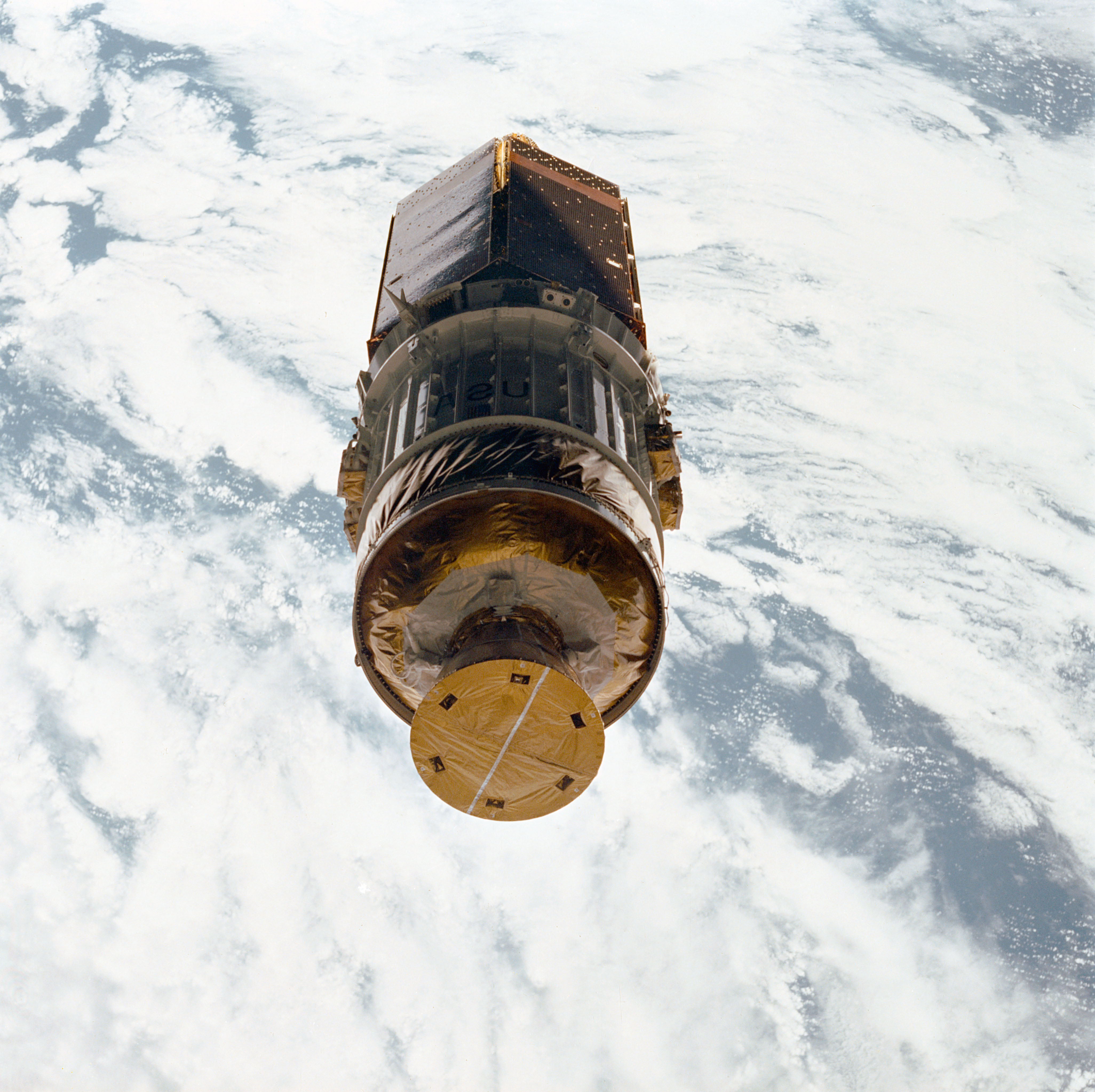 STS-26 Discovery IUS / TDRS-C deployment After deployment from Discovery, Orbiter Vehicle (OV) 103, the inertial upper stage (IUS) with the tracking and data relay satellite C (TDRS-C) drifts above the cloud-covered Earth surface. TDRS-C, in stowed configuration (solar array panels visible), is mounted atop the IUS with the interstage and solid rocket motor and nozzle seen in the foreground.